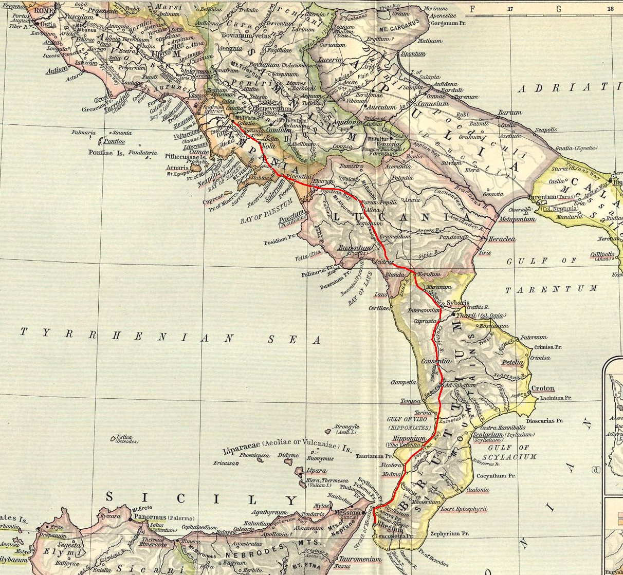 Ancient roman Capua-Rhegium (Popilia) road (from a William R. Shepherd 1923 map) highlited in red color.